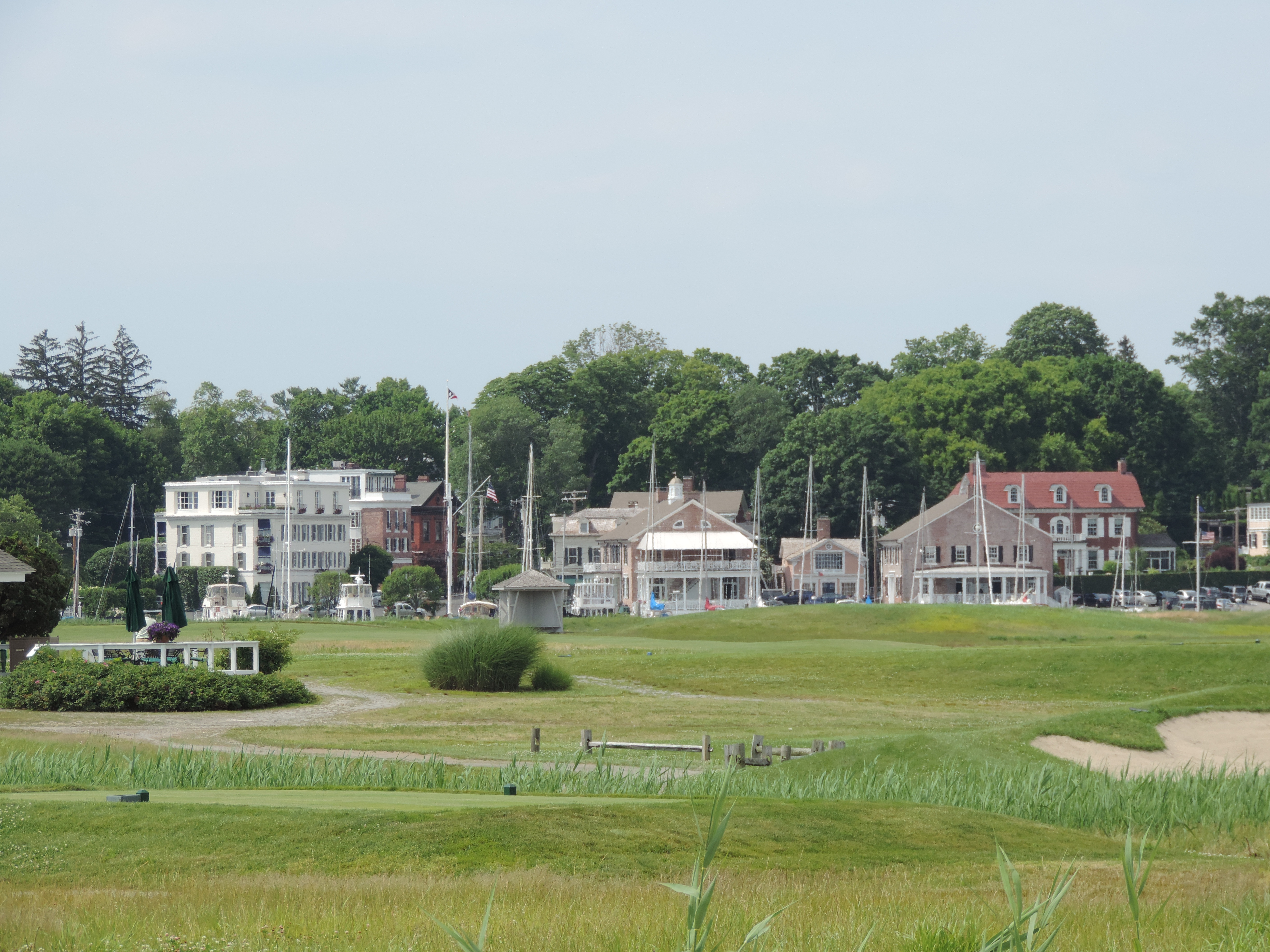 A view of the harbour in Southport, Conn. The picture was taken at Sasco Beach, across the Mill River from Southport.